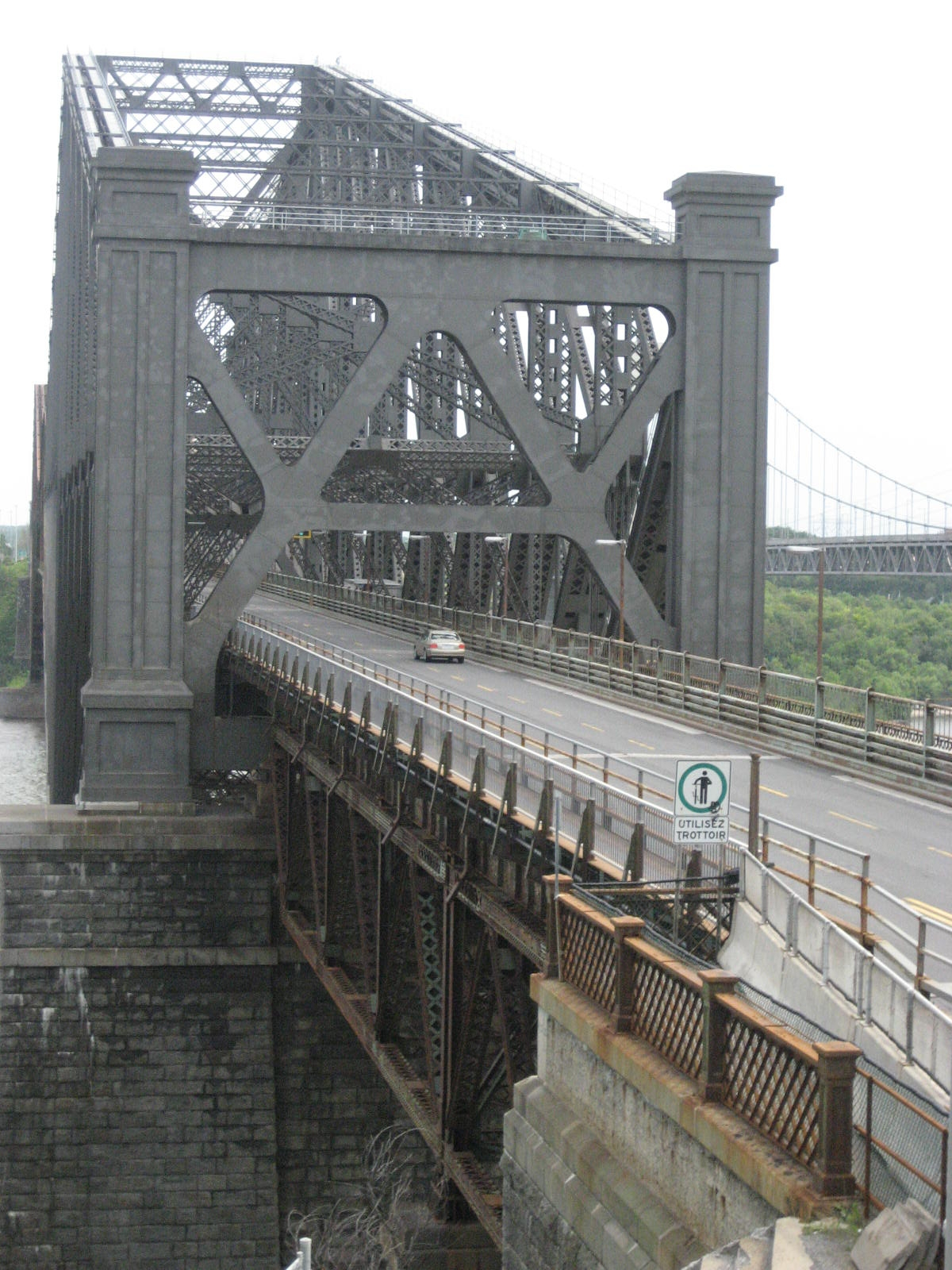 Quebec Bridge, view from Parc Aquarium Du Quebec, Quebec City, Canada